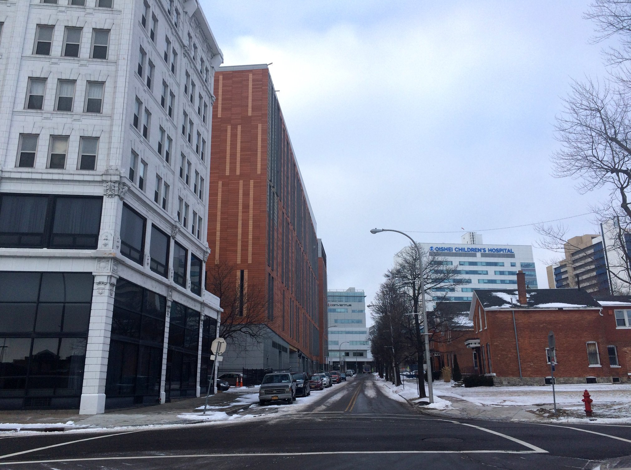 View northward up Washington Street from the corner of Carlton Street, Buffalo, New York, January or February 2018. The Roosevelt Apartments are seen as left, the UB Jacobs School of Medicine stands behind it; left to right in the distance are the Conventus building, Oishei Children's Hospital, and Buffalo General Hospital Building A.